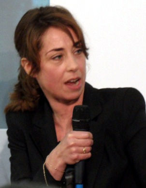 Sofie Gråbøl at the Scandinavia Show in London in 2011.